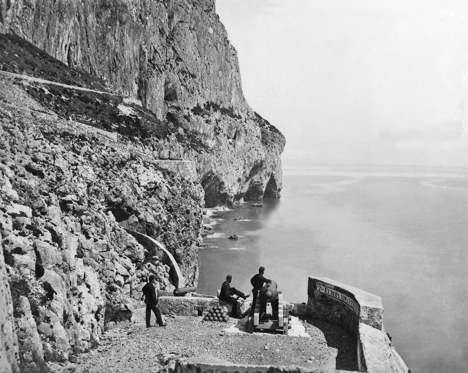 Europa Advance Battery. Photograph from c. 1880 byGeorge Washington Wilson (died 1893) of a place in Gibraltar - images found by Neville Chipolina